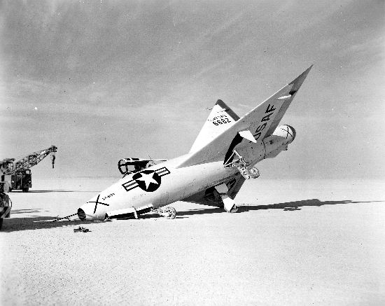 Landing accident of the Convair XF-92, October 14, 1953. Nose gear collapsed; ended use of the aircraft by NACA.